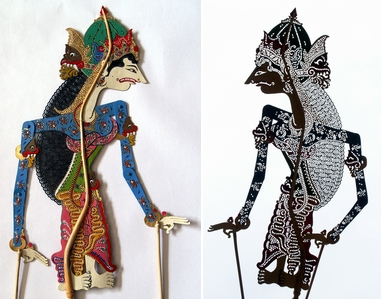 Kuraisin, wayang kulit figure from the wayang shadow play Serat Menak Sasak